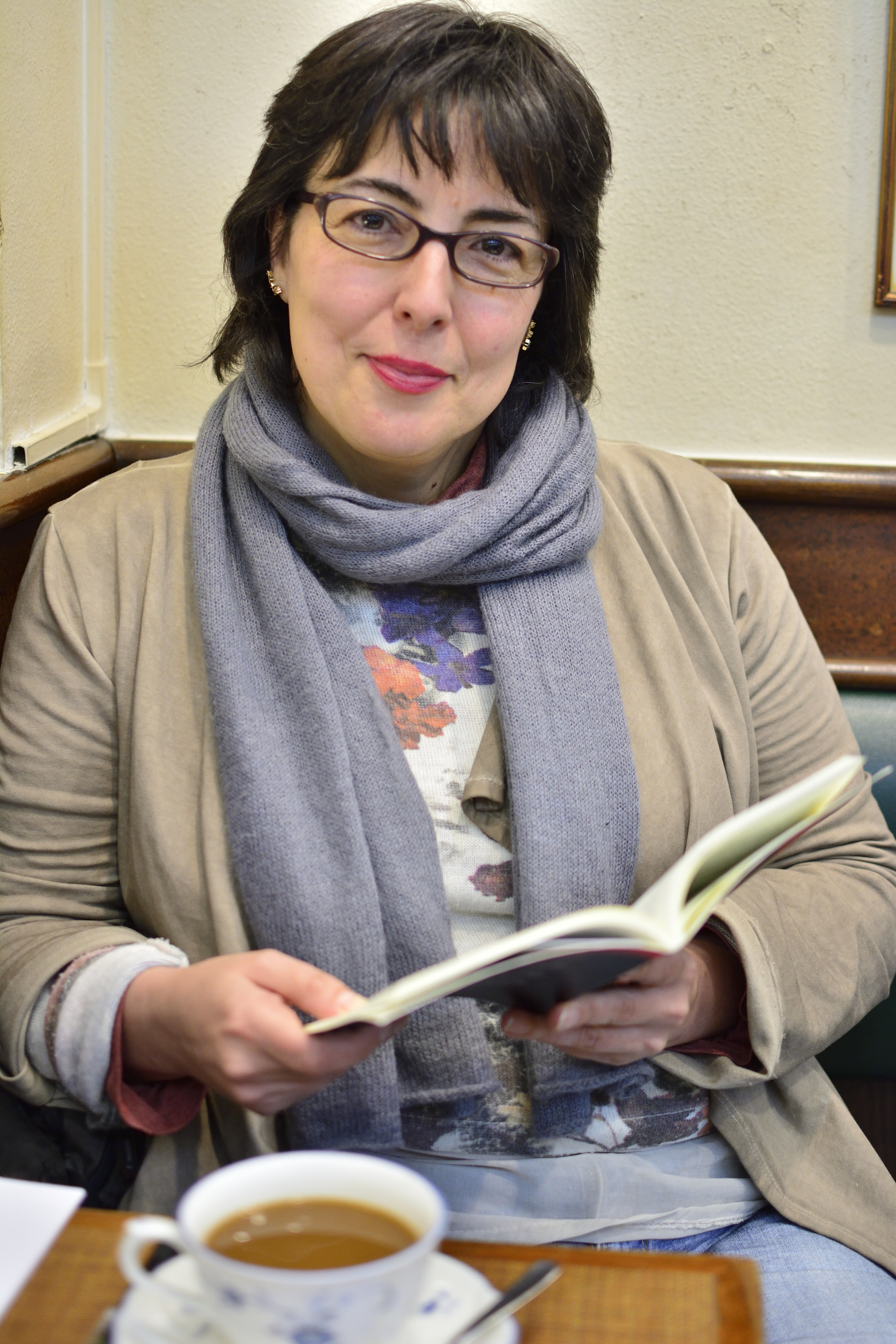 Pioneer in literary translation from Japanese into Spanish